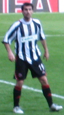 Keith Gillespie. Image cropped from original at flickr.